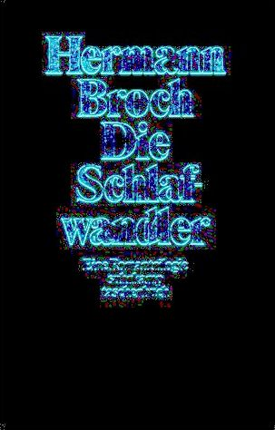 Book cover of Hermann Broch "Die Schlafwandler. Eine Romantrilogie"